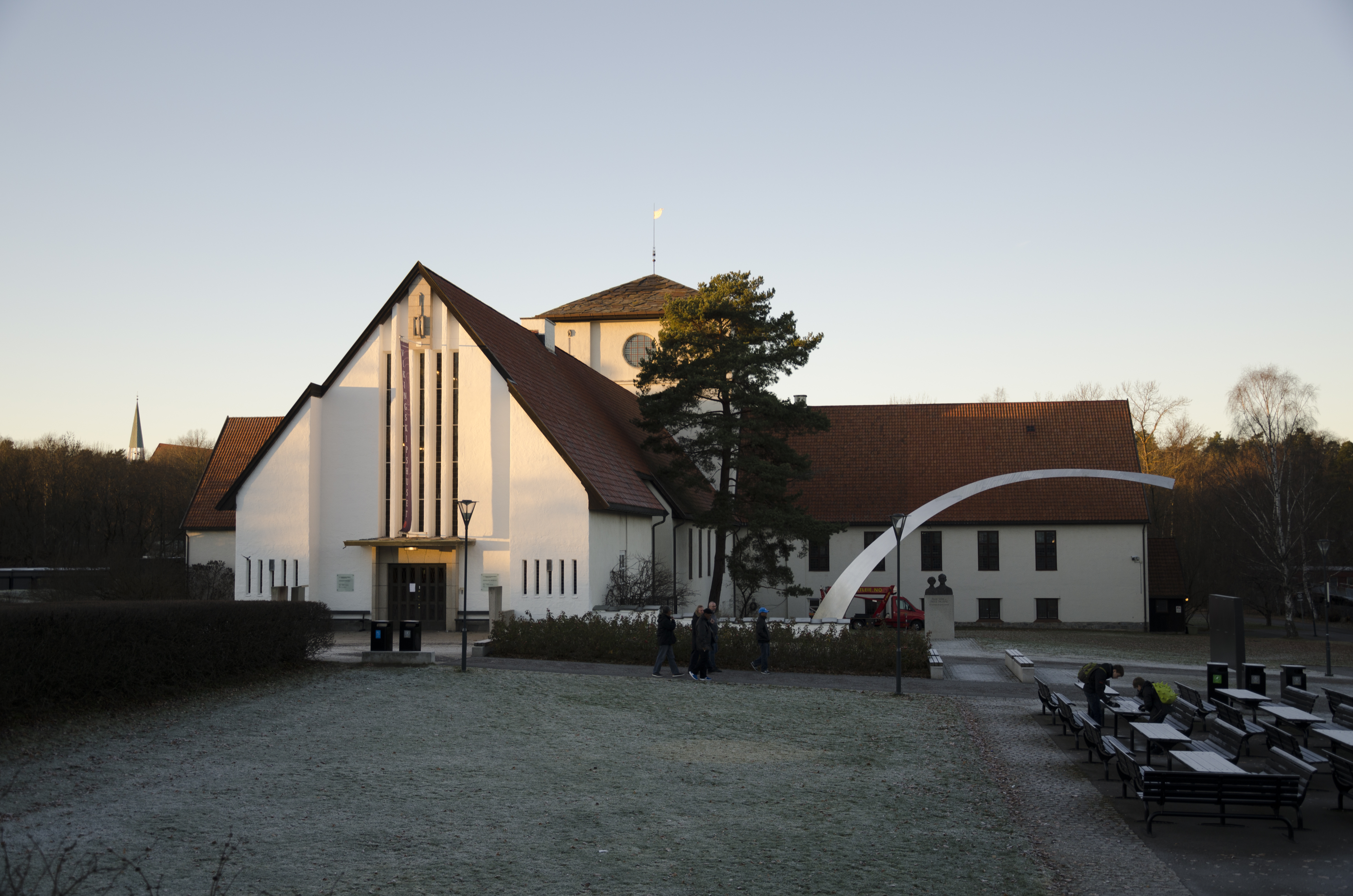 The viking ship museum in november 2016.